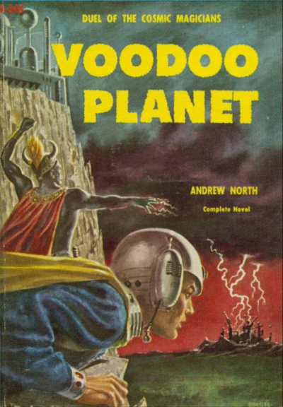 Voodoo Planet, by Andrew North - cover - Project Gutenberg eText 18846